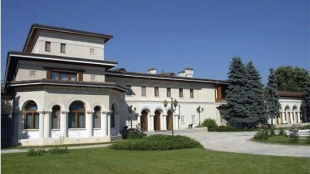 Picture of Snagov Palace